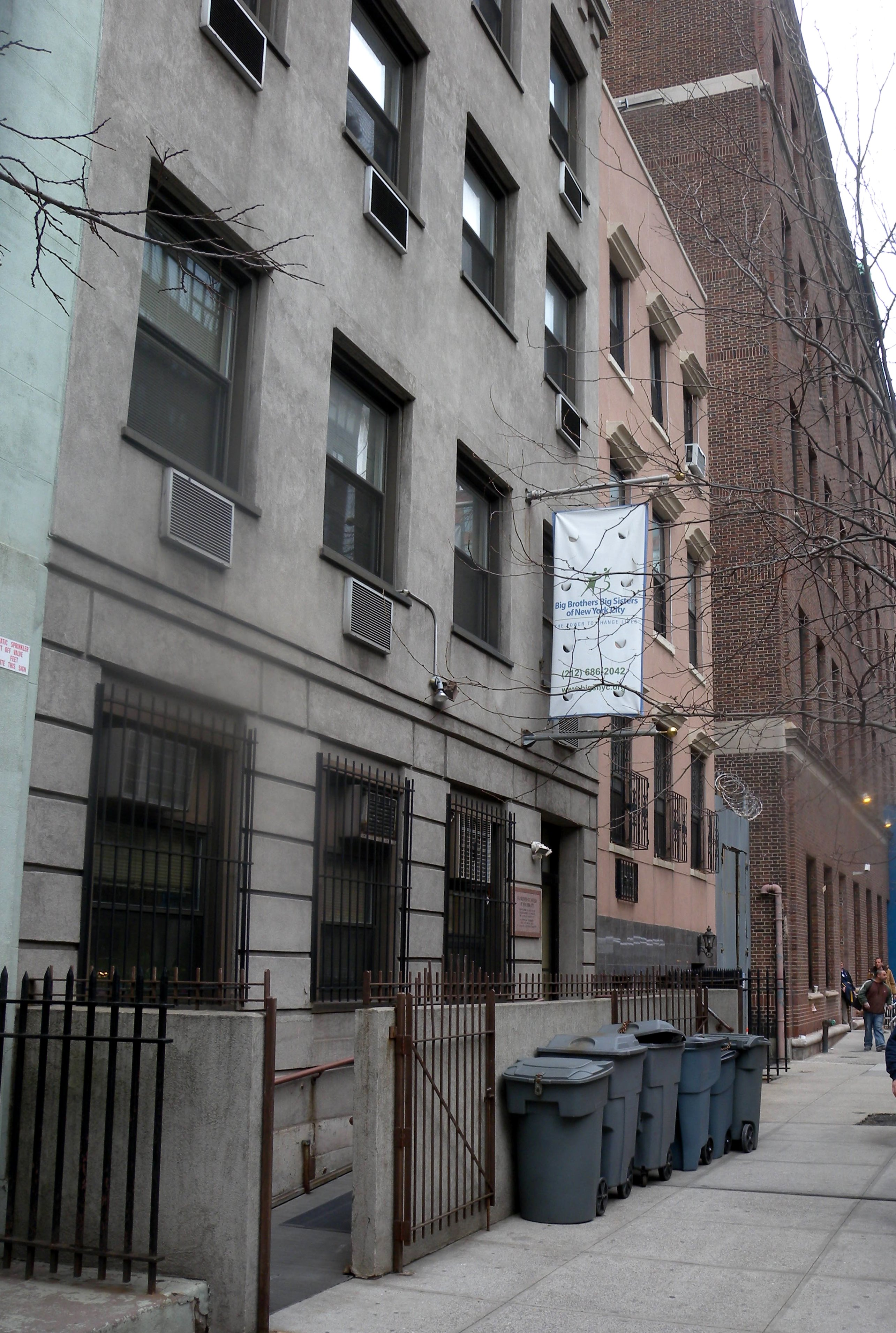 Looking east along 30th St at Big Brothers / Big Sisters HQ.